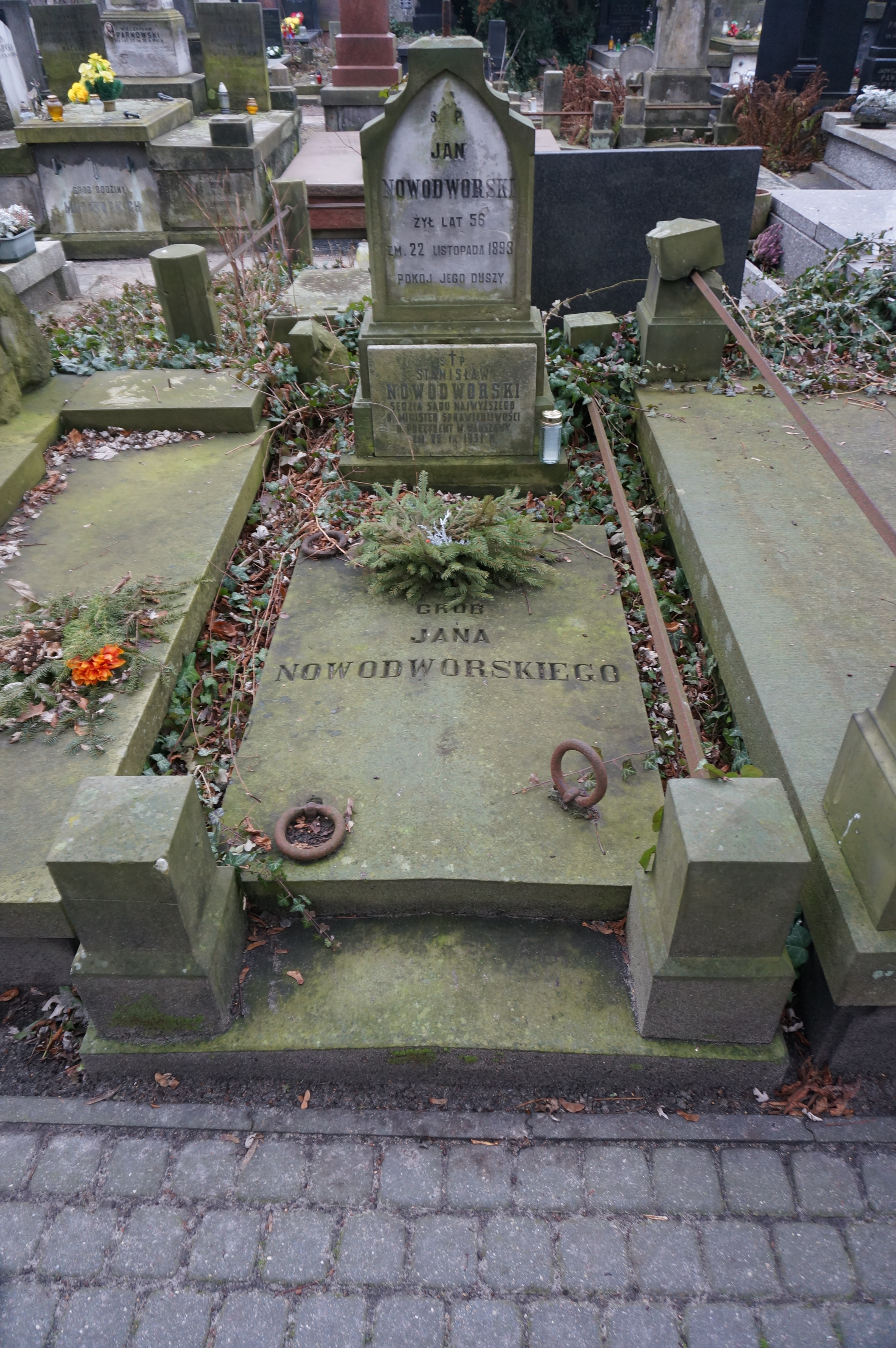 The grave of Stanisław Nowodworski at the Powązki Cemetery (section P, row 3, grave 14)